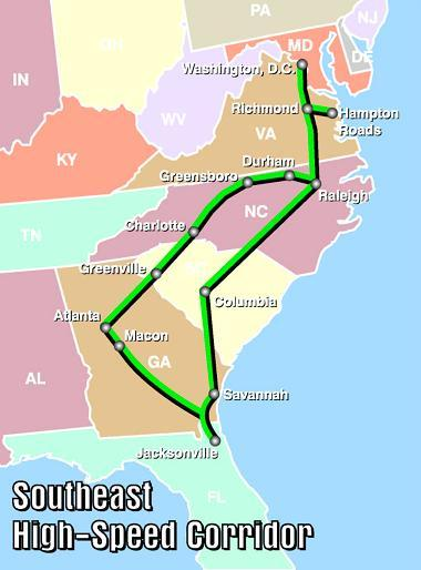 Map of Southeast Corridor, a federally designated high-speed rail corridor.